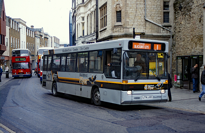 Dennis Dart 9.8SDL Plaxton Pointer, registration L714 JUD, fleet number 3005, with Blackbird Flyer branding. Scanned from a Fujichrome 35mm slide.